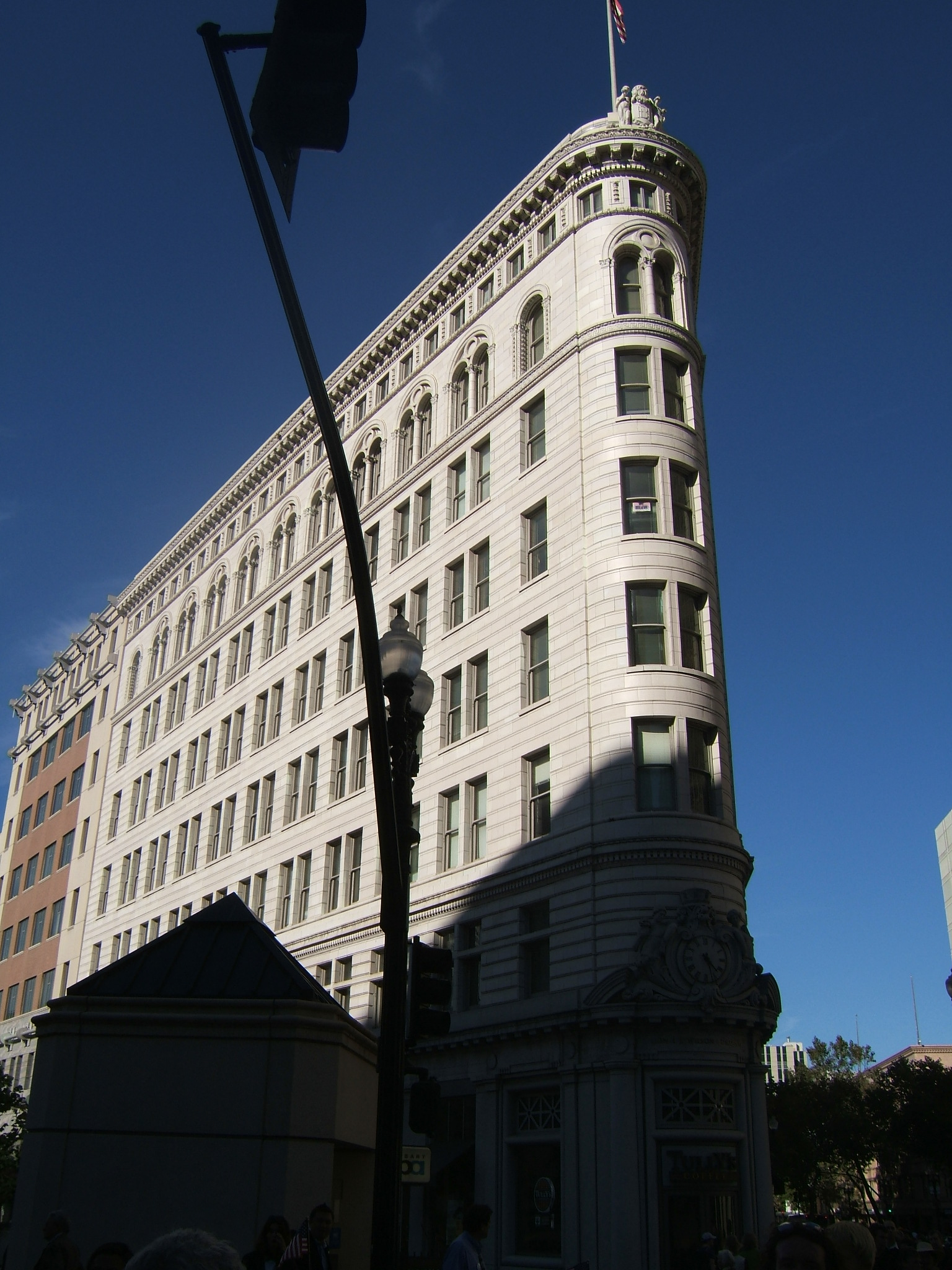 City Center Plaza, Clay Street & 14th Street, Downtown Oakland, California.